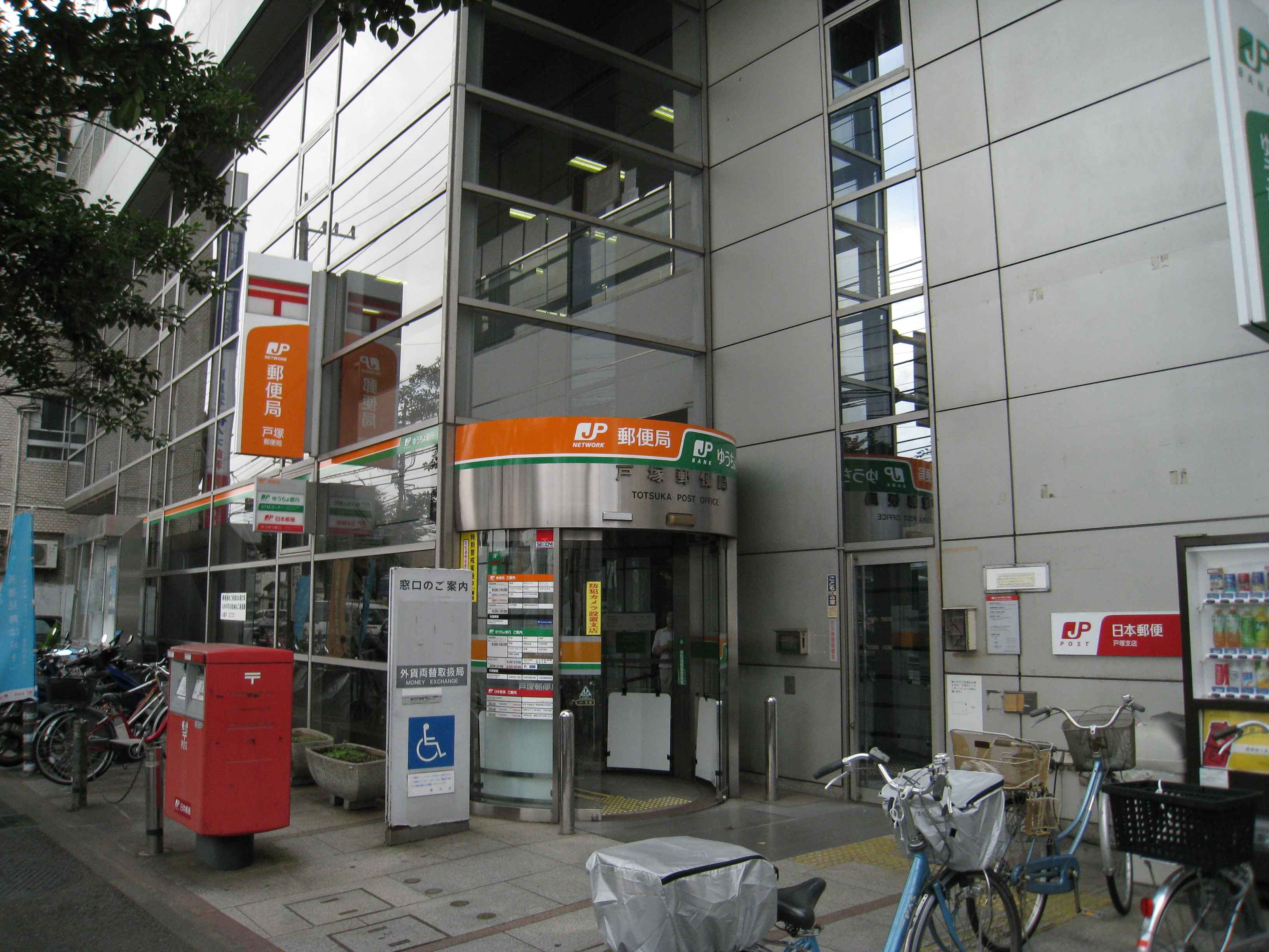 Totsuka Postoffice. Yokohama-city, Japan